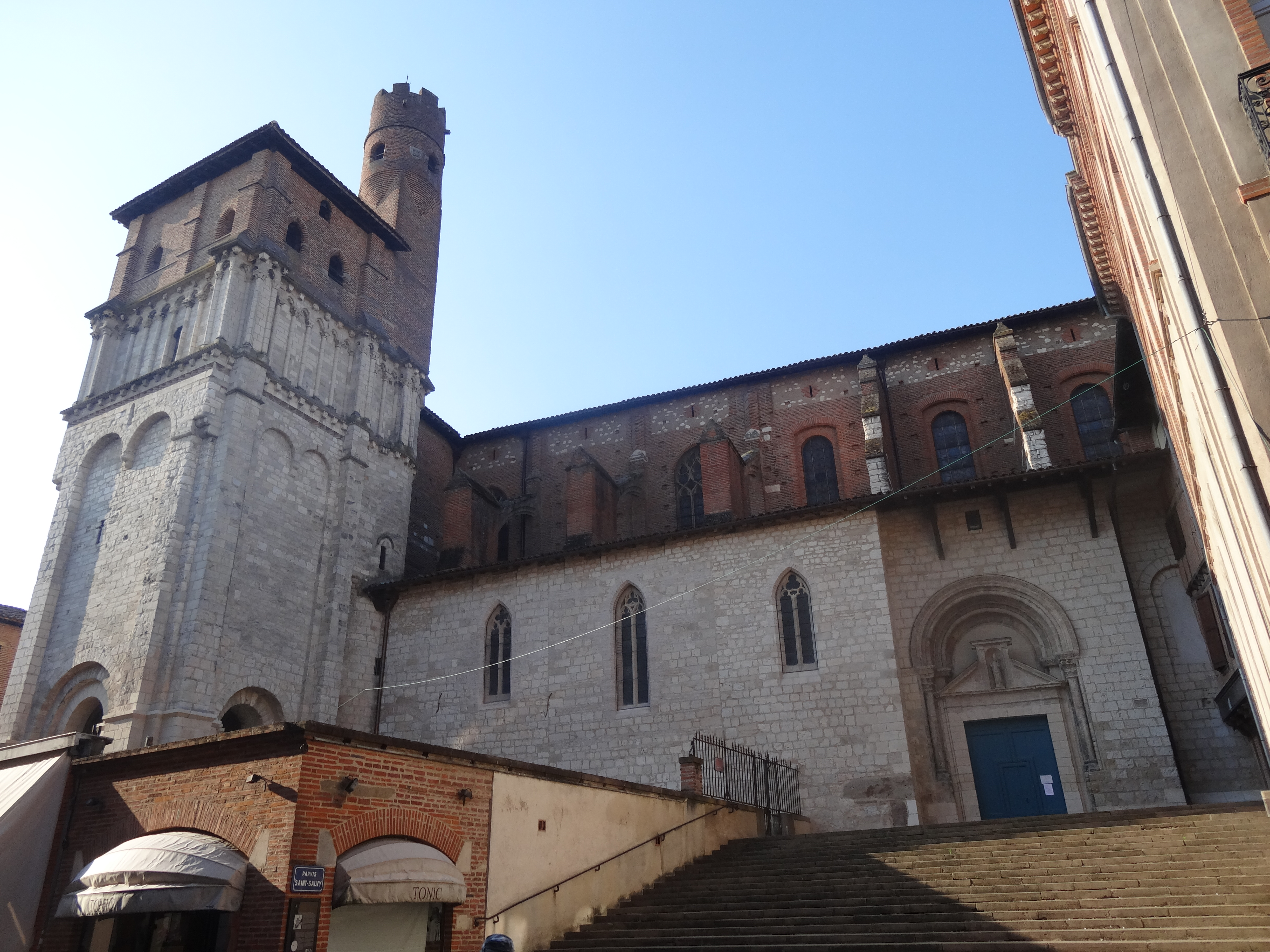 Collégiale Saint-Salvy (Albi)